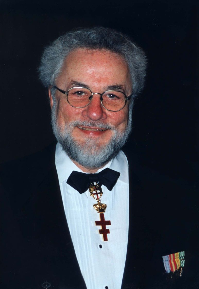 From Wash D.C. April 12, 2002 " The inspiration for Robin Williams character in " Good Morning Vietnam " © copyright John Mathew Smith